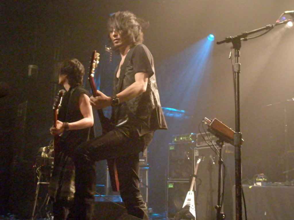 Boom Boom Satellites performing at Irving Plaza, New York